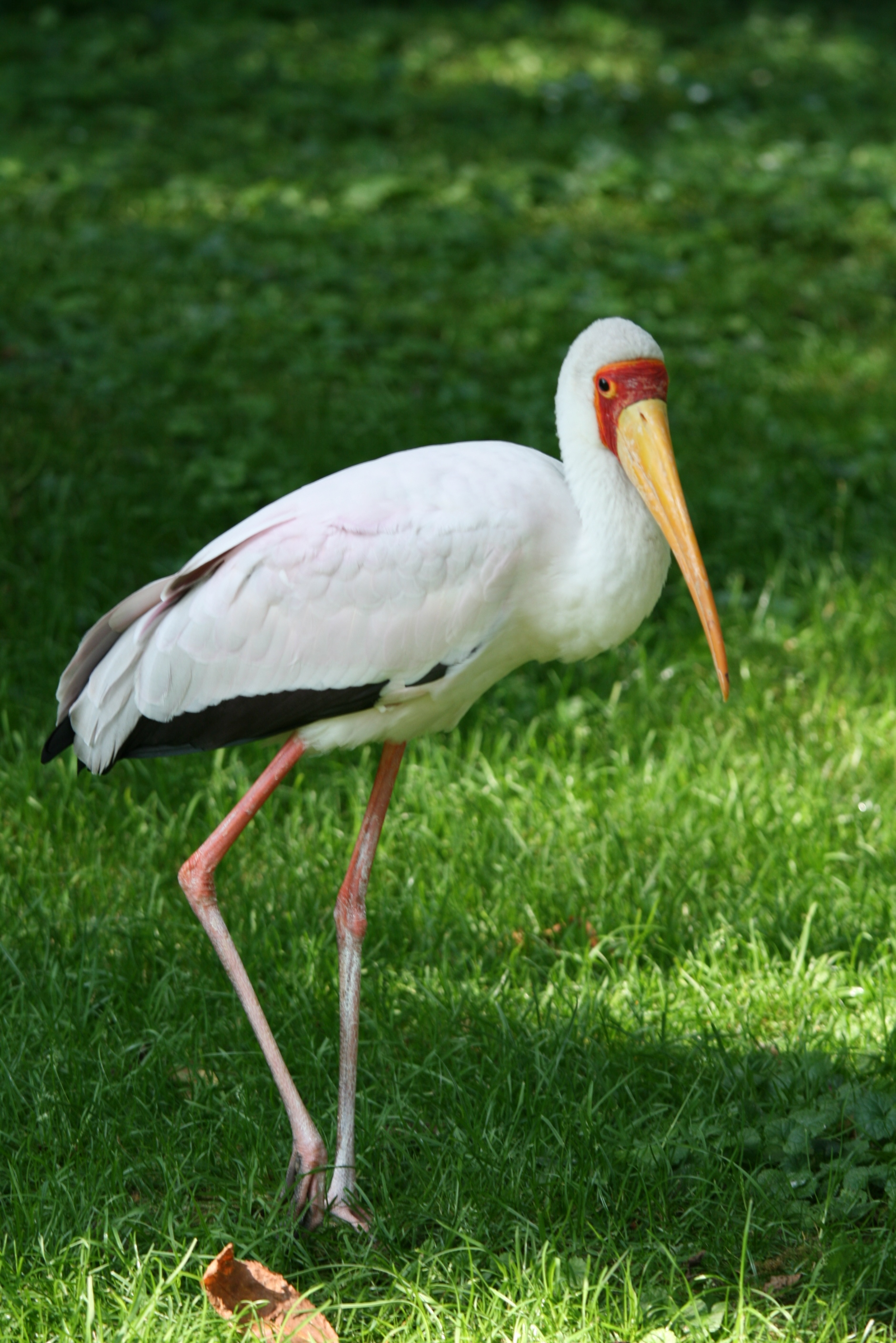 Yellow-billed Stork (Mycteria ibis), Parc Paradisio, Hainaut, Belgium.